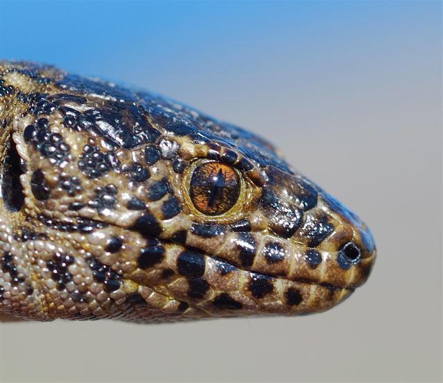 The island night lizard (Xantusia riversiana) inhabits three of the Channel Islands off the coast of southern California. Photo Credit: U.S. Navy